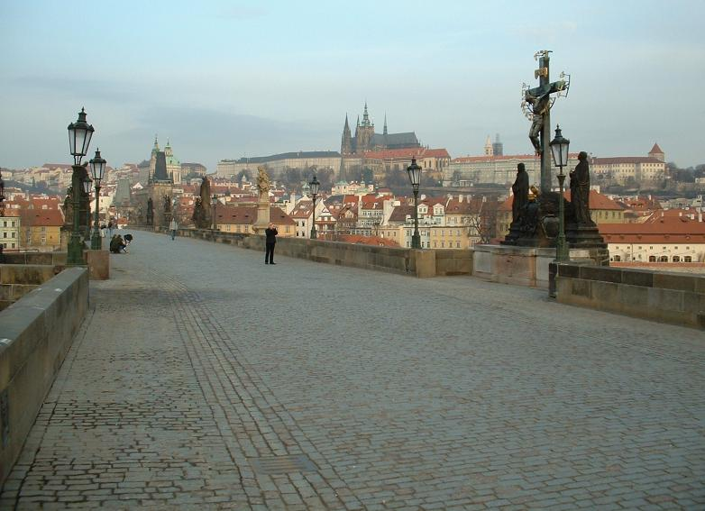 To see Charles Bridge like this one has to get up very early ...